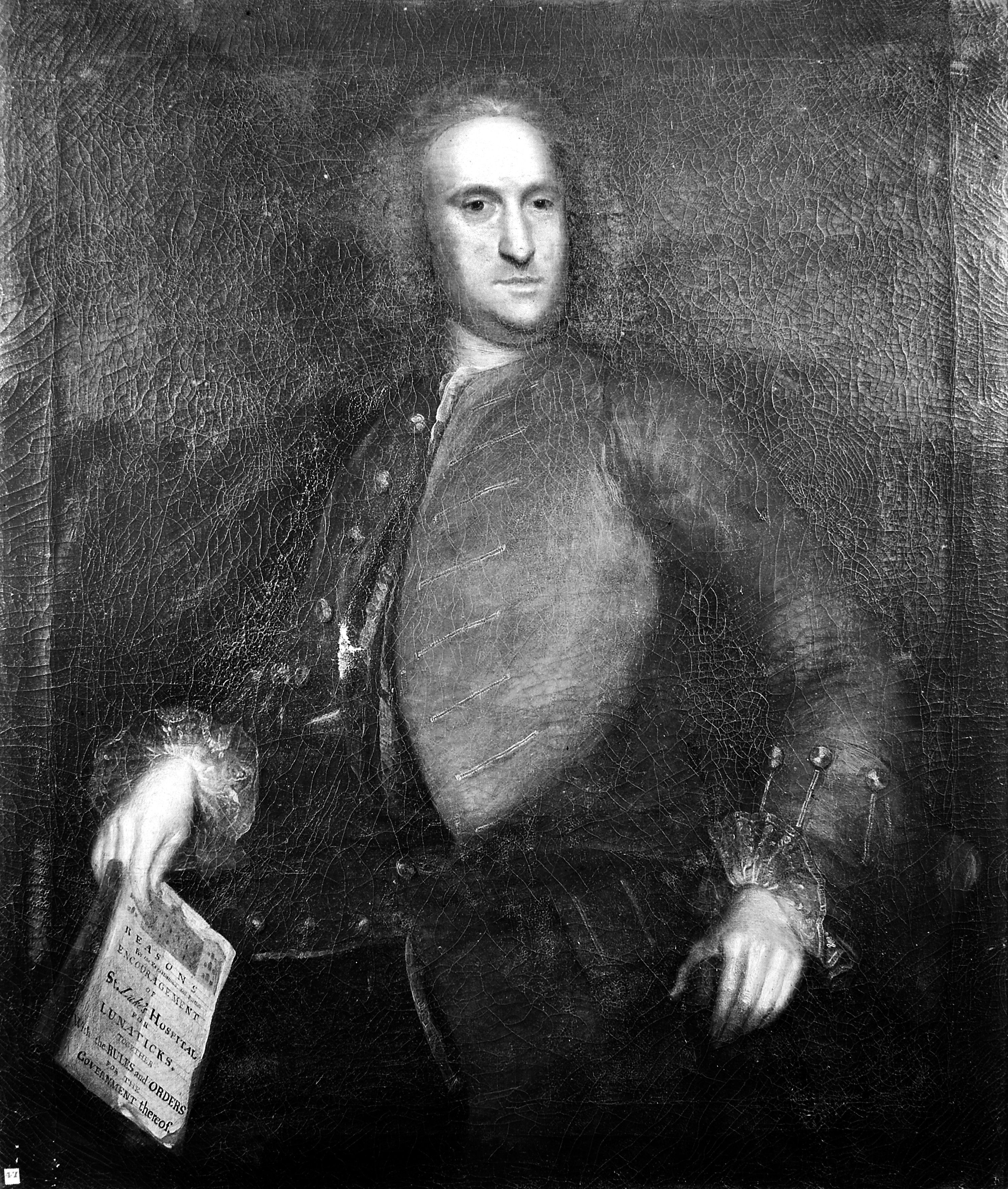 Portrait of William Battie. Iconographic Collections Keywords: William Battie